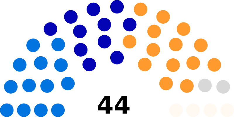 Seats diagramme of Swiss Council of States (1857)